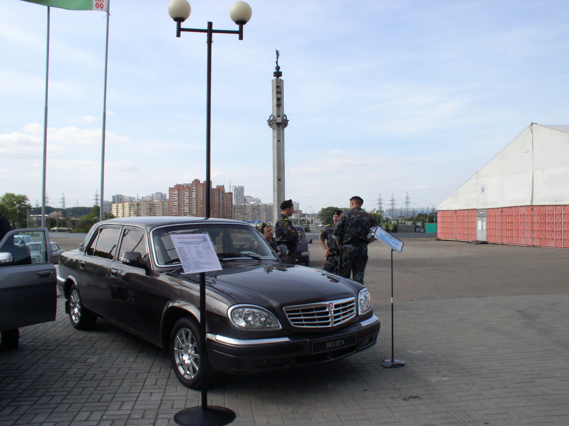 GAZ 31105 "Volga".